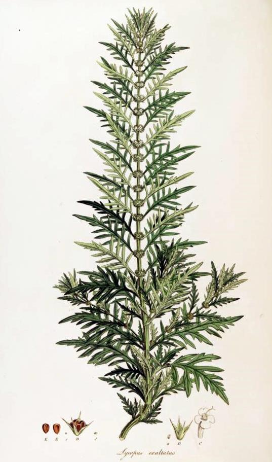 Hoher Wolfstrapp; Lycopus exaltatus